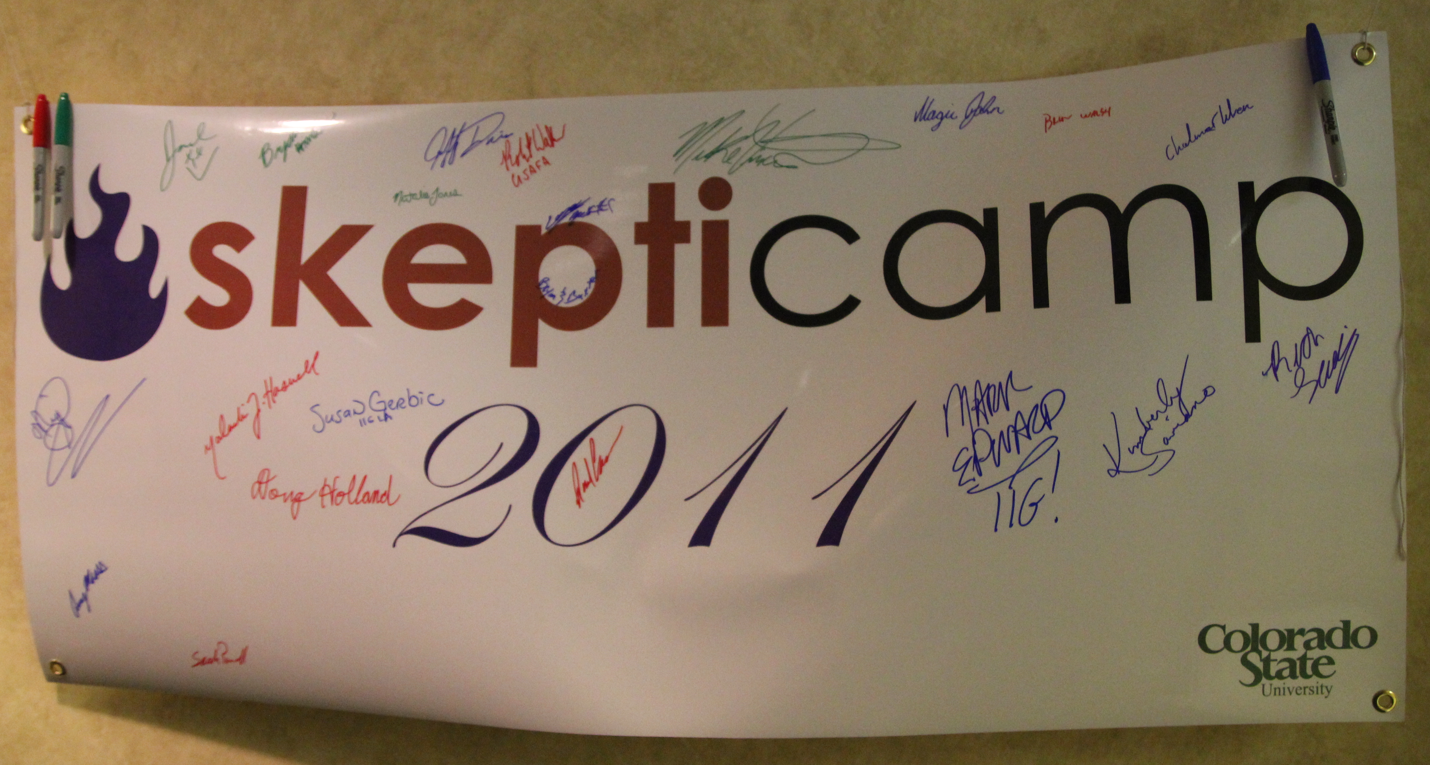 SkeptiCamp banner from first camp of 2011 in Fort Collins, Colorado. This banner will be signed by each presenter and moved to the next Camp until the year-end.